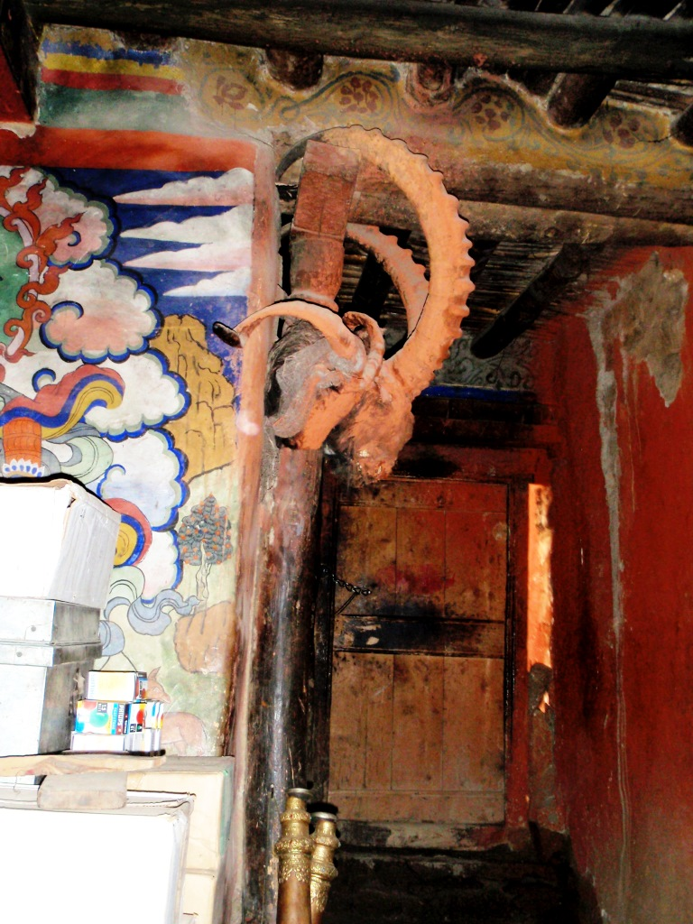 photo taken on trip to Ladakh in 2010